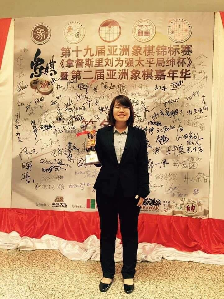 Nguyen Hoang Yen in Asian xiangqi championship 2016